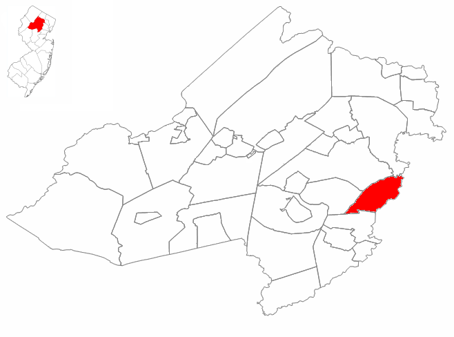 Position of East Hanover Township (highlighted in red) in Morris County. Morris County's position in New Jersey is in turn highlighted in red.